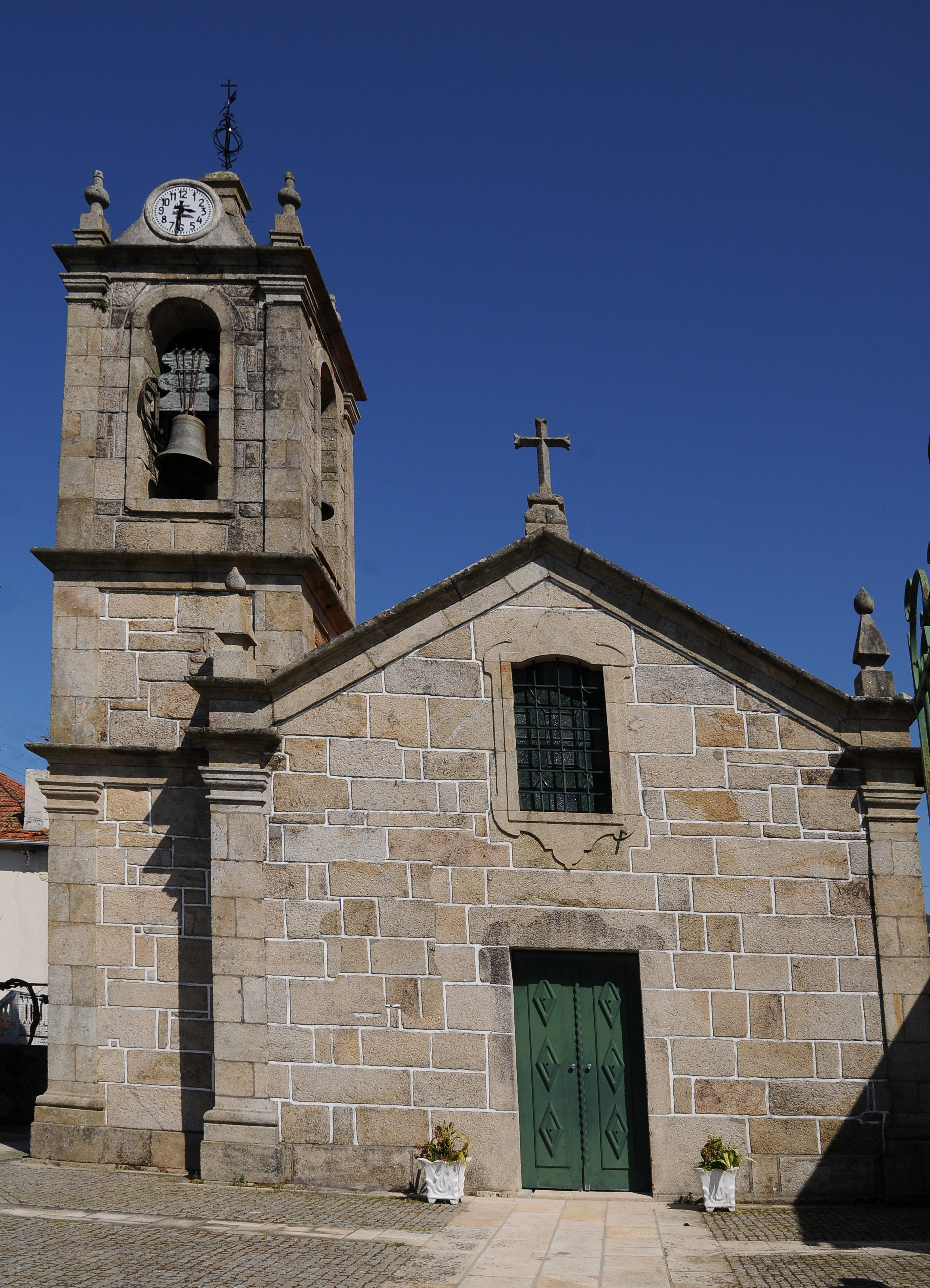 Prado Church, in Prado, Melgaço, Portugal